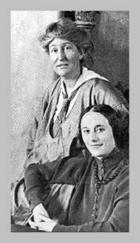 Malvina Hoffman with her close friend Anna Pavlowa.